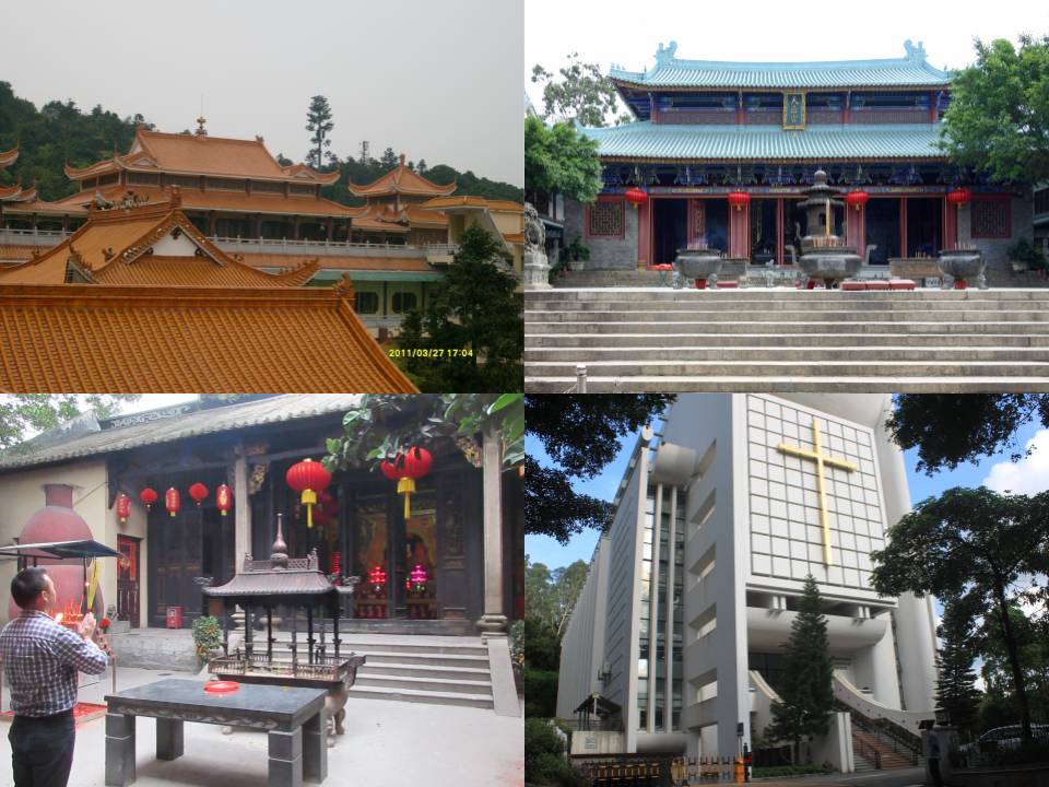 It is a montage version of the gallery of religious buildings under Shenzhen demographics. Clockwise starting top left: Hongfa Buddhist Temple, Temple of the Queen of Heaven (Mazu), Shenzhen Christian Church, Temple of Guandi